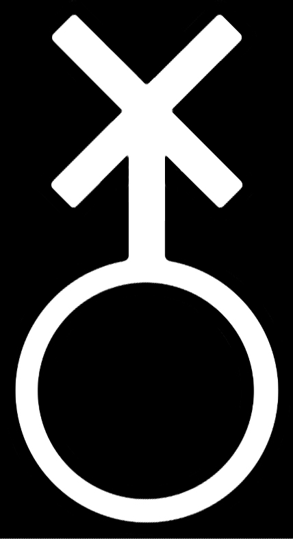 Sign for Non-Binary Gender Identity